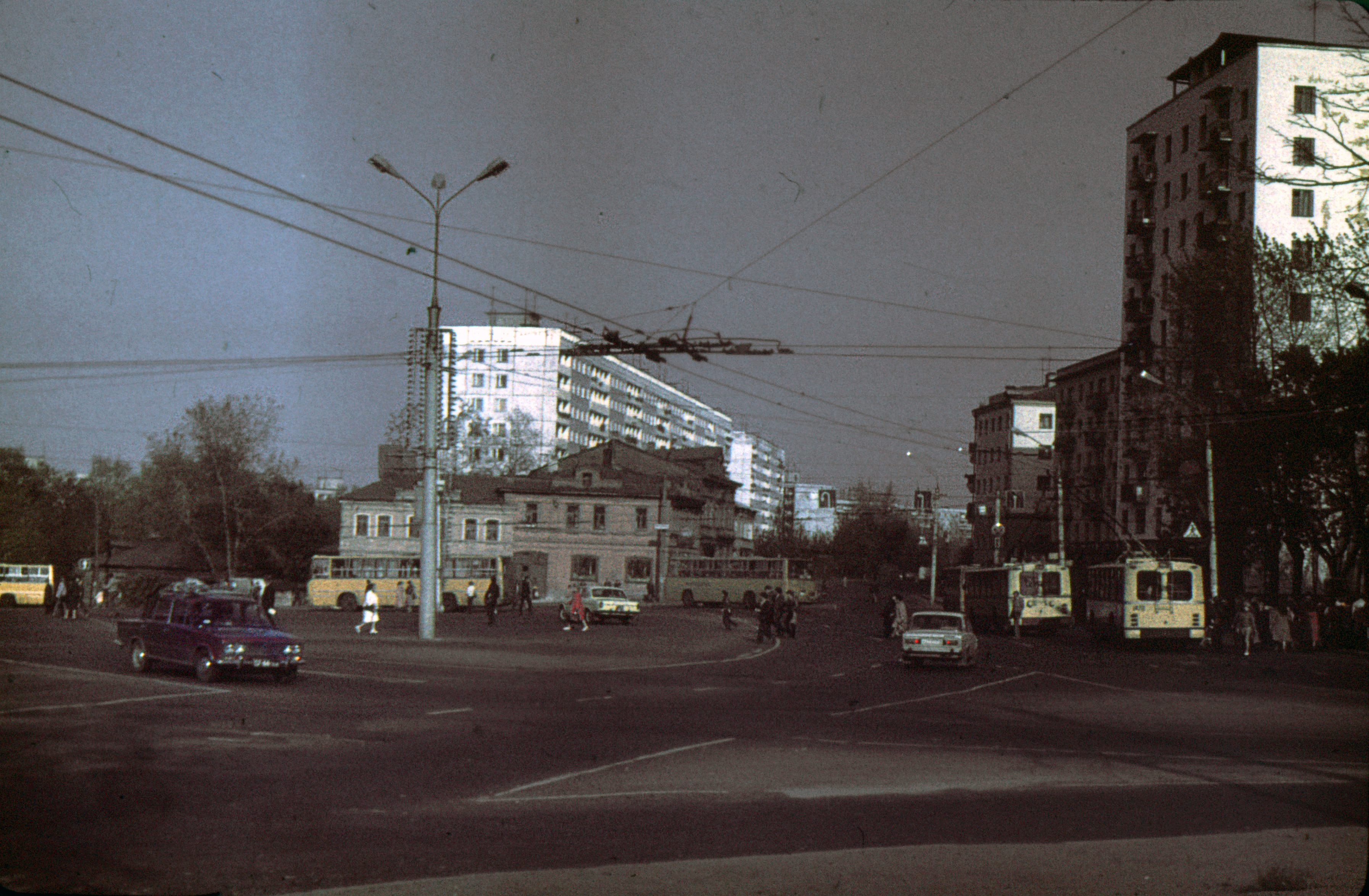 Gorky City. Freedom (Svobody) Square